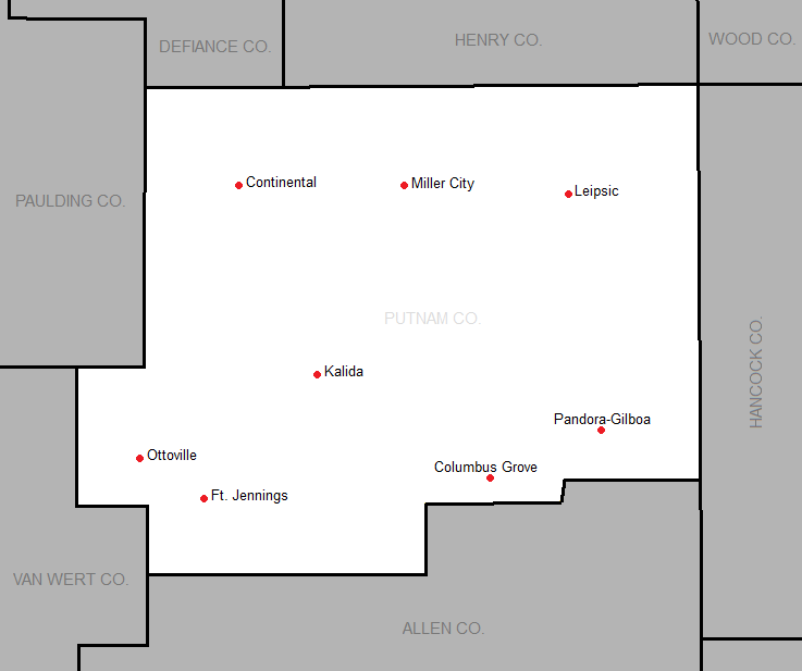 County outlines made by the US Census. Modified by myself to show the school locations.